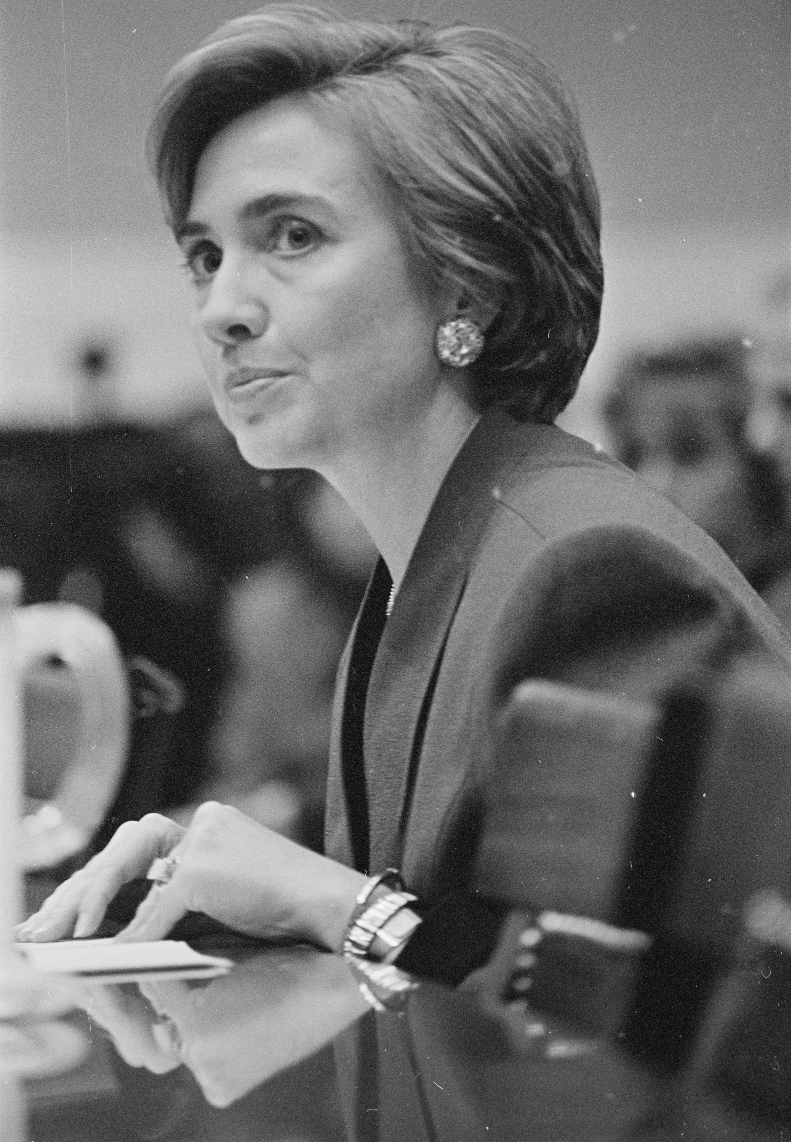 First Lady Hillary Clinton, head-and-shoulders portrait, seated, facing left, during her presentation at a congressional hearing on health care reform